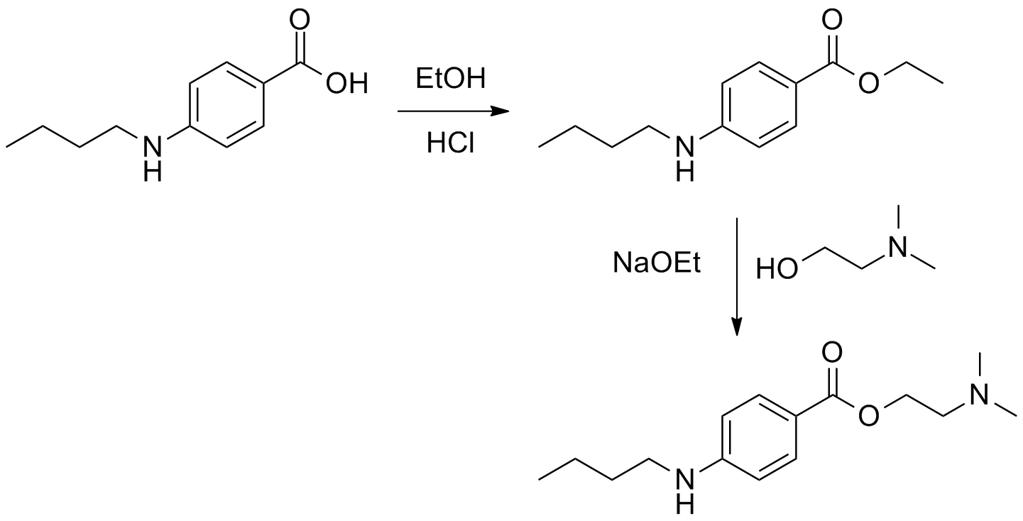 Tetracaine synthesis from Winthrop Chem. Co. Patent US1889645, 1932